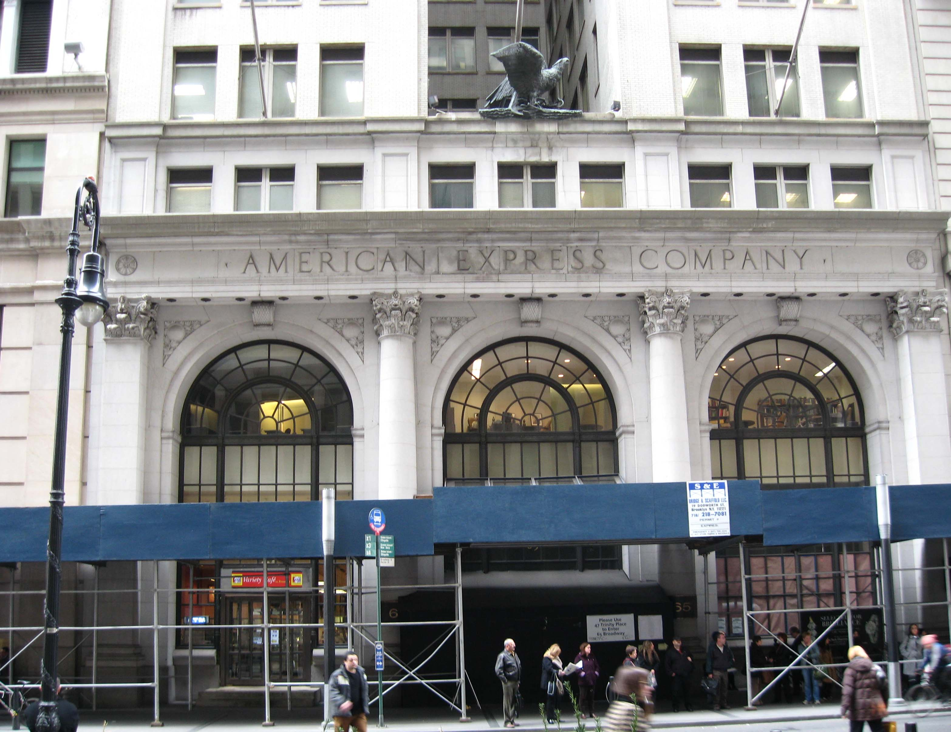 Former AMEX HQ at 65 Broadway